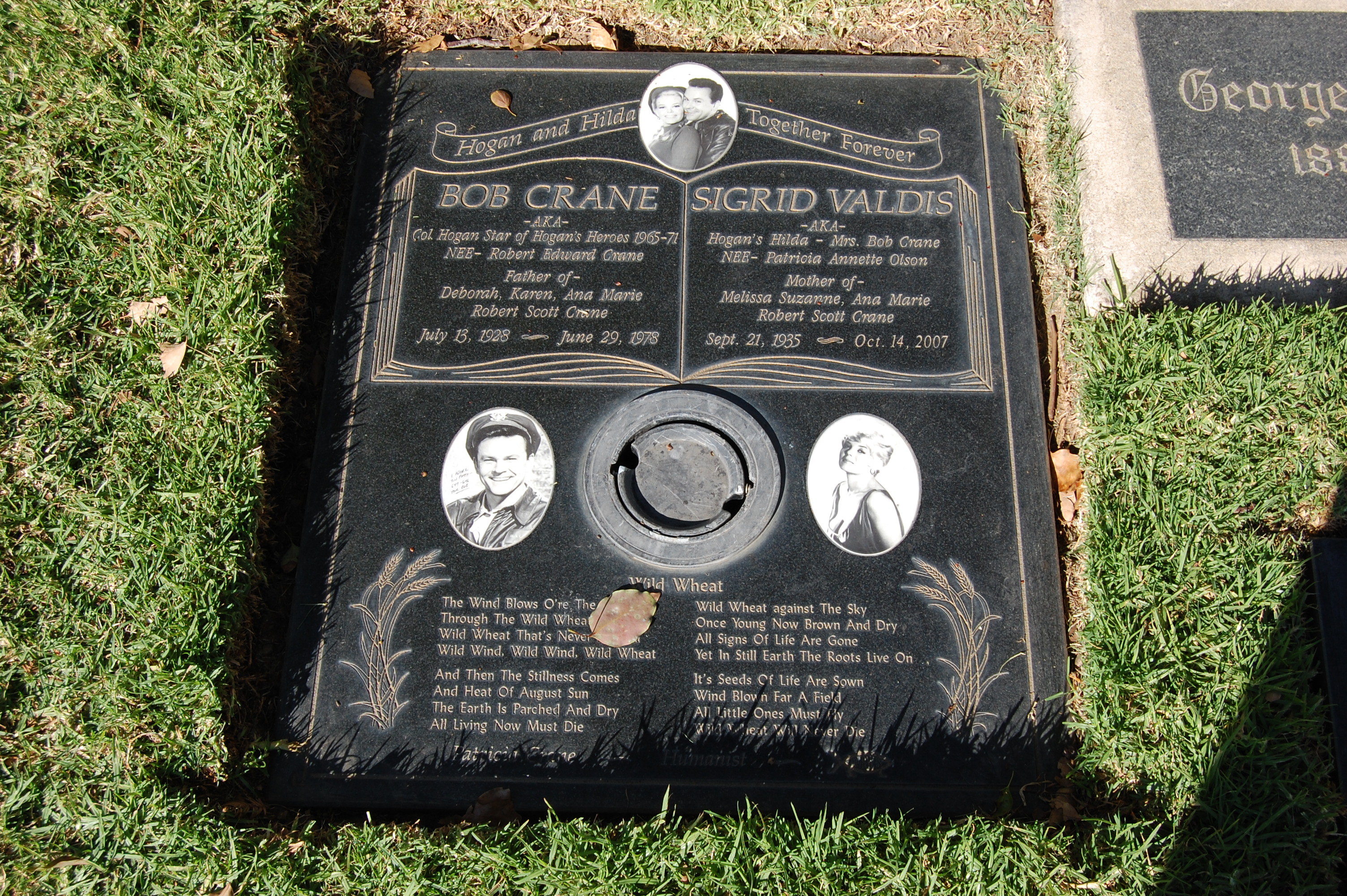 Bob Crane grave at Westwood Village Memorial Park Cemetery in Brentwood, California. December 2011.